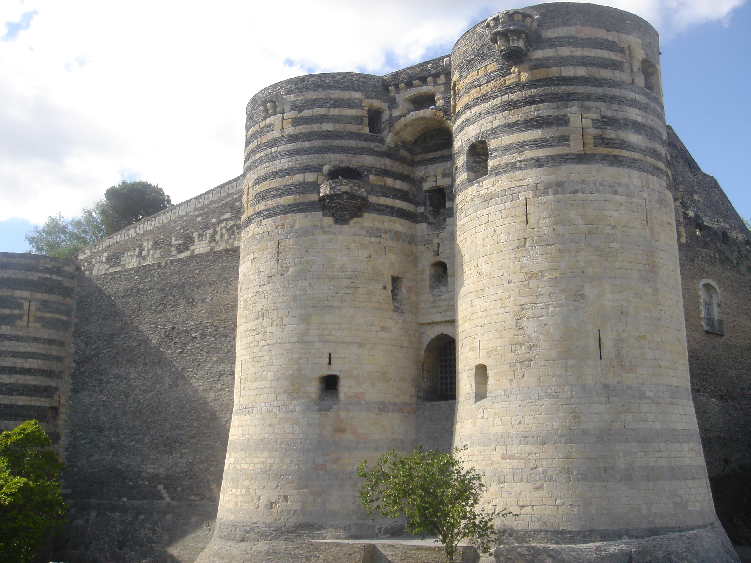 The majestic towers of Château d'Angers reflect the architecture of the medieval kingdom. This building is indexed in the Base Mérimée, a database of architectural heritage maintained by the French Ministry of Culture, under the references PA00108871 and IA49000839 .